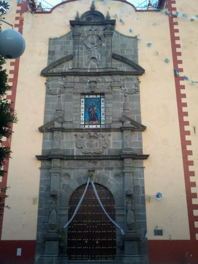 Ex-Convento Franciscano en Cholula de Rivadabia